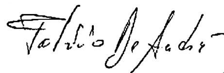 Signature of Fabrizio De André